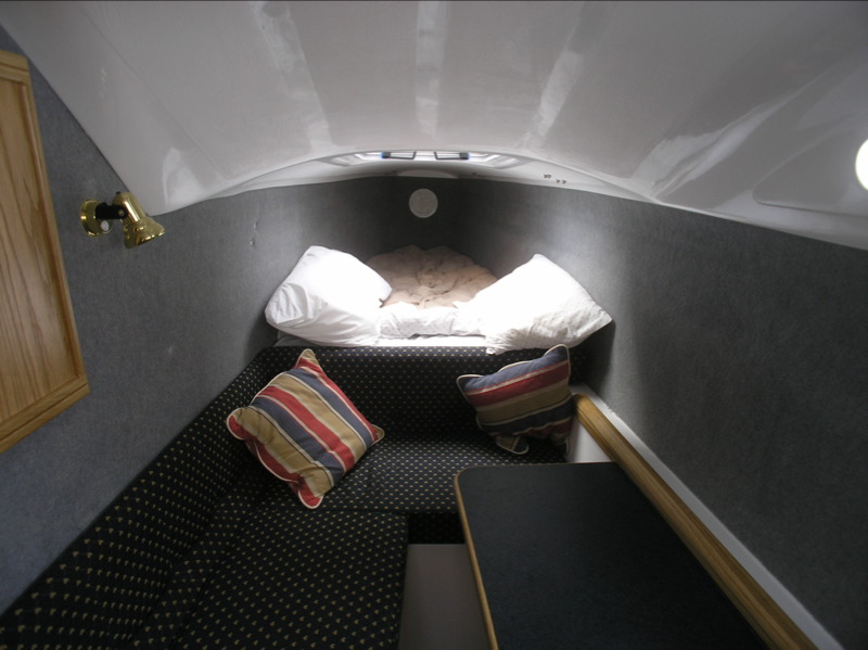 A double berth in the starboard hull of a catamaran Seawind 1000 - Darling Harbour - Sydney International Boat Show 2006